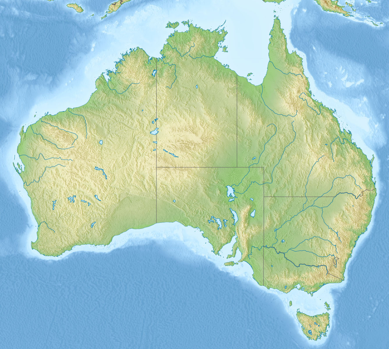 Relief map of Australia, including the borders of the states of the Commonwealth of Australia Equirectangular projection, N/S stretching 110 %. Geographic limits of the map: N: 9.0° S S: 44.5° S W: 111.5° E E: 155.0° E